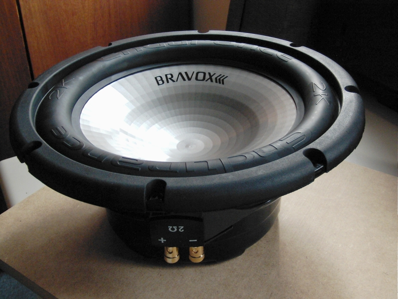 12" Endurance 2k car subwoofer.